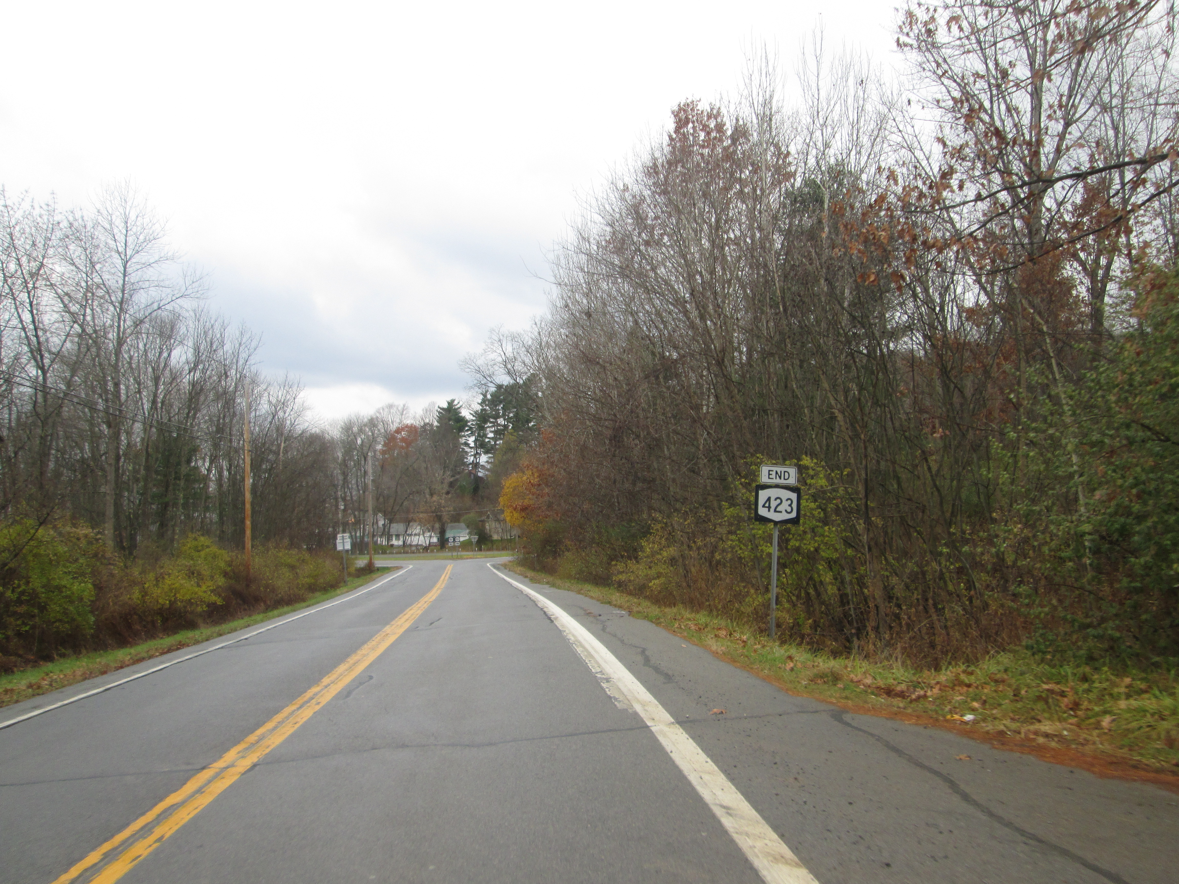 New York State Route 423New York State Route 423 approaching New York State Route 9P in Stillwater, New York.